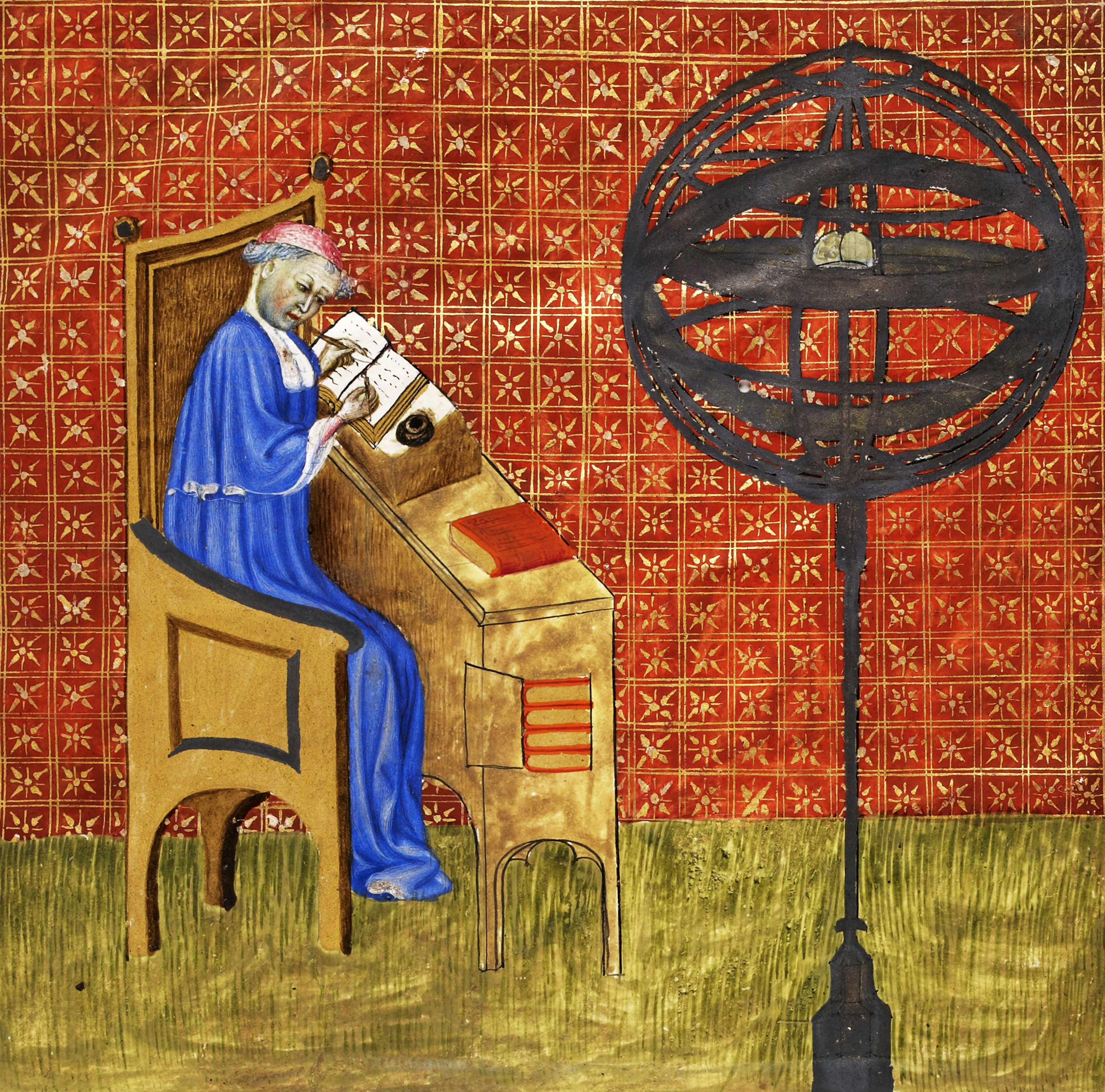 First page of the book "Traité de l'espère". The miniature represents Nicole Oresme busy at his studies, with an armillary sphere in the foreground.